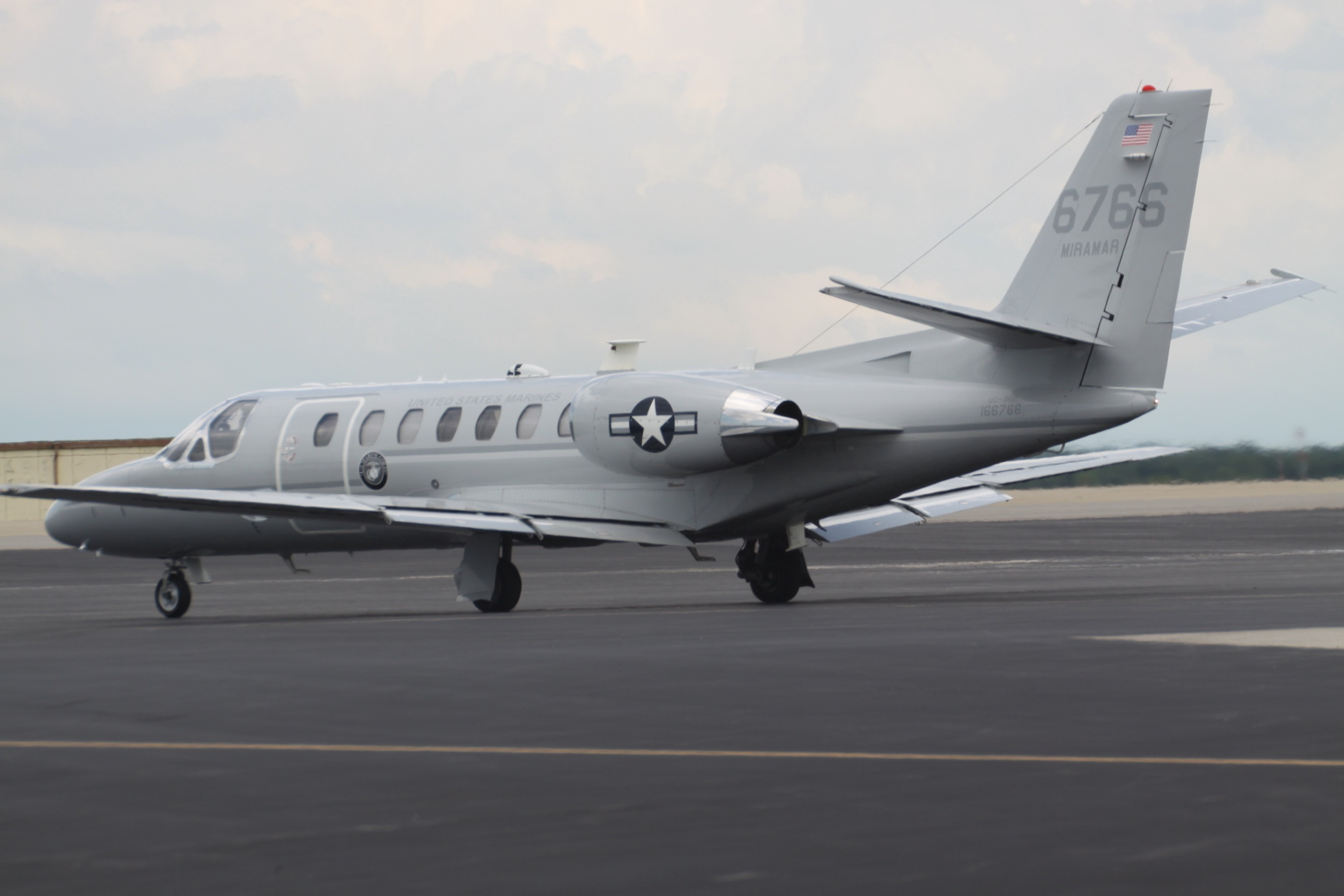 At Topeka AFB Forbes Field